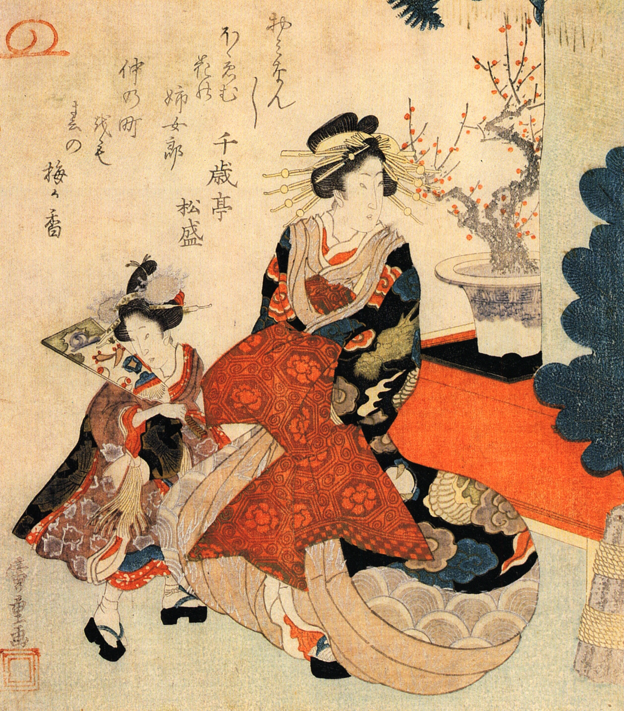 Courtesan and a little girl agead a new-year decoration